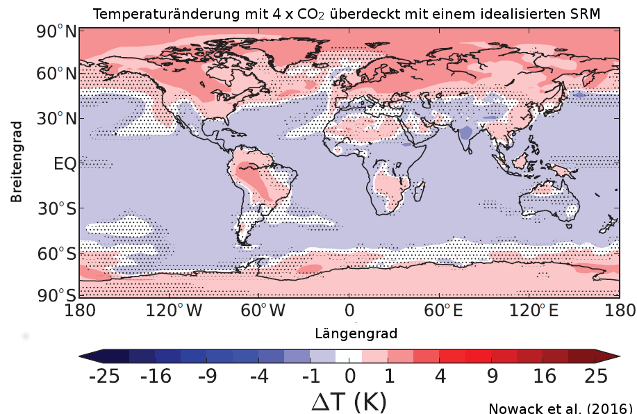 Annual mean surface temperature anomaly, based on the average temperatures of the last 50 years of a simulation run with idealized G1 scenario (4 × CO 2 relative to preindustrial conditions completely masked with reduced solar radiation). Non-significant changes are stippled. (For more details , figure 2.)